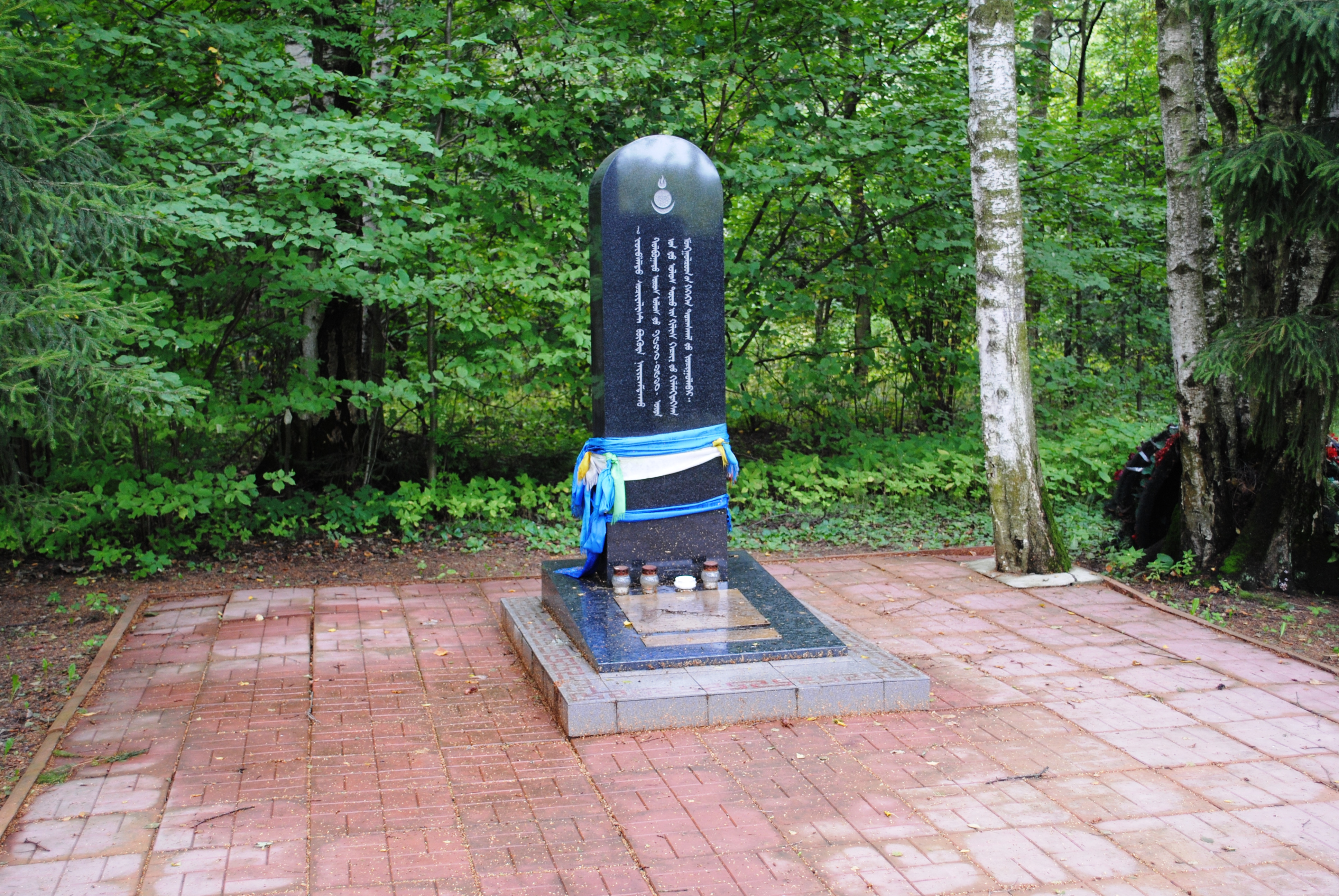 Poligon Kommunarka